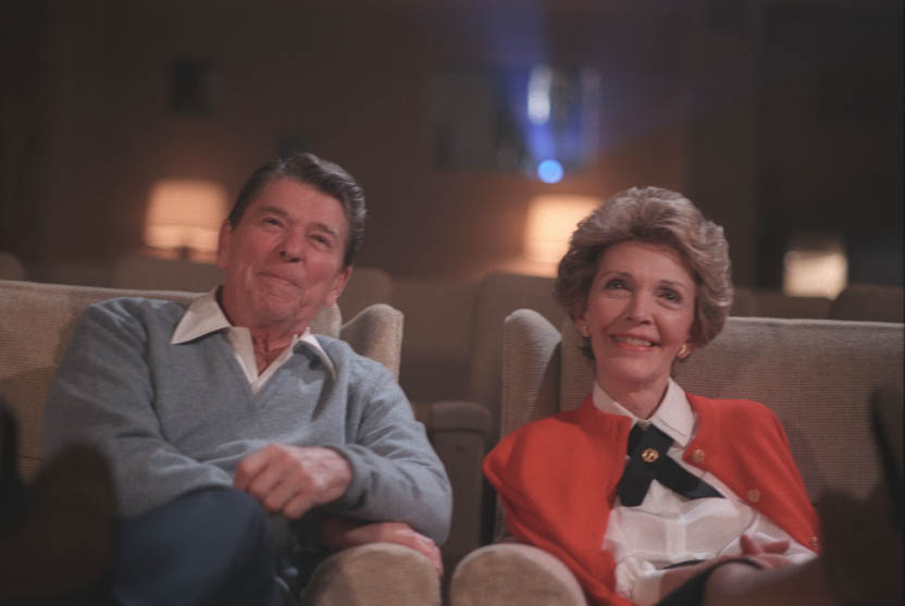 President Reagan and Nancy Reagan watching a film in the White House Theater.